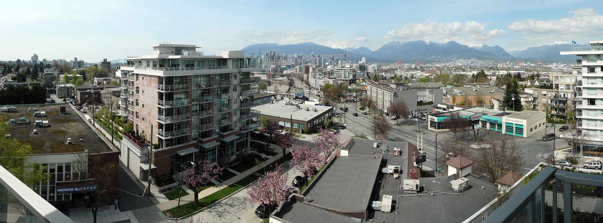 Panorama of Vancouver, BC; taken from Mount Pleasant